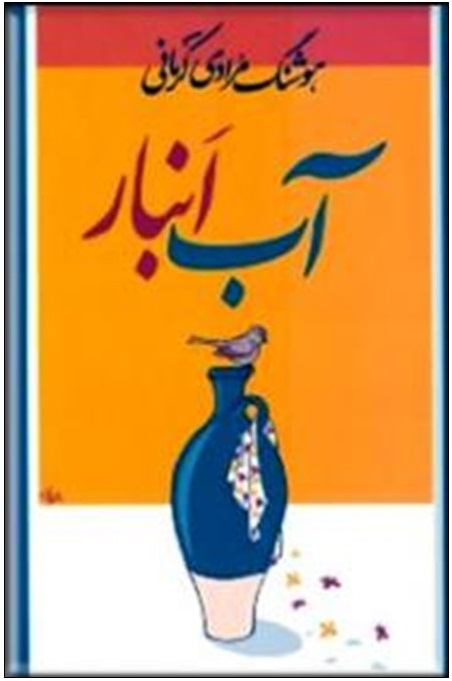 Ab anbar moradi(cover book)